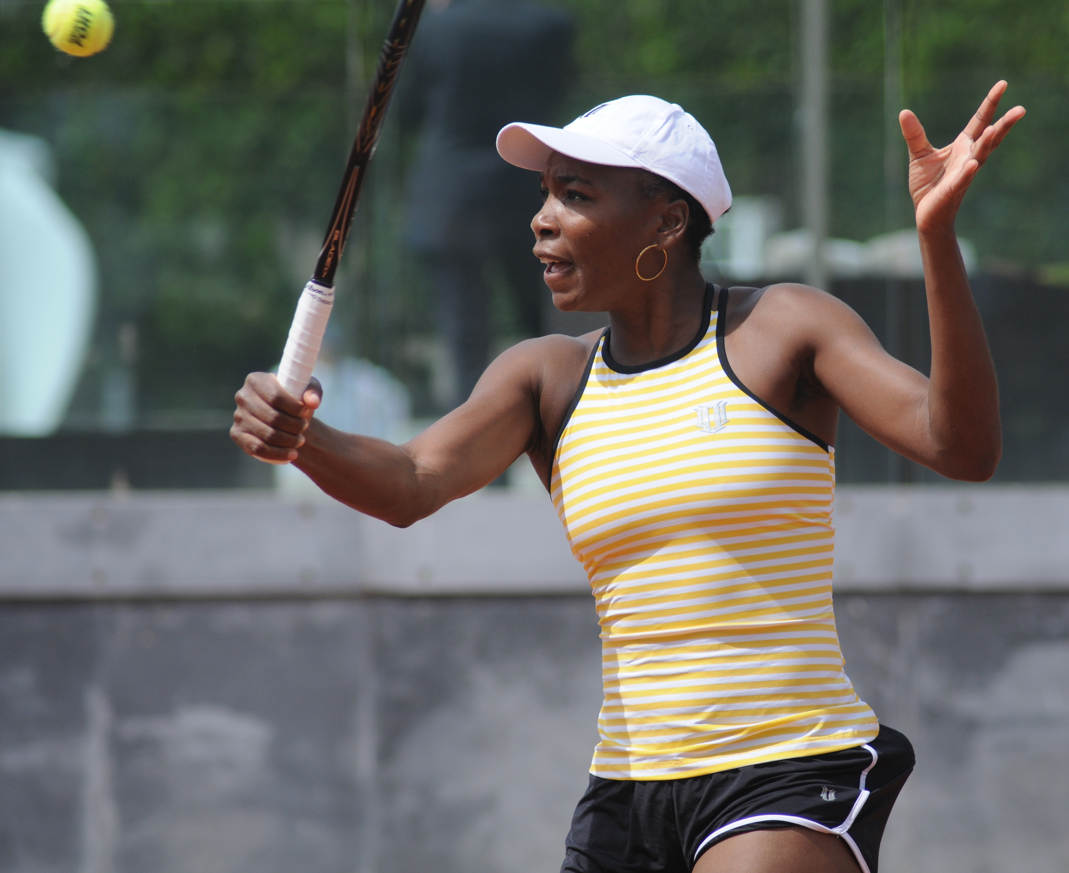 Venus Williams at the 2014 Internazionali BNL d'Italia